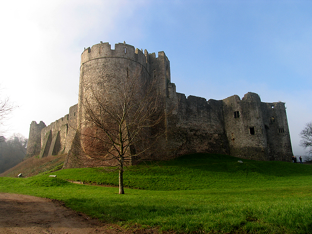 Chepstow Castle